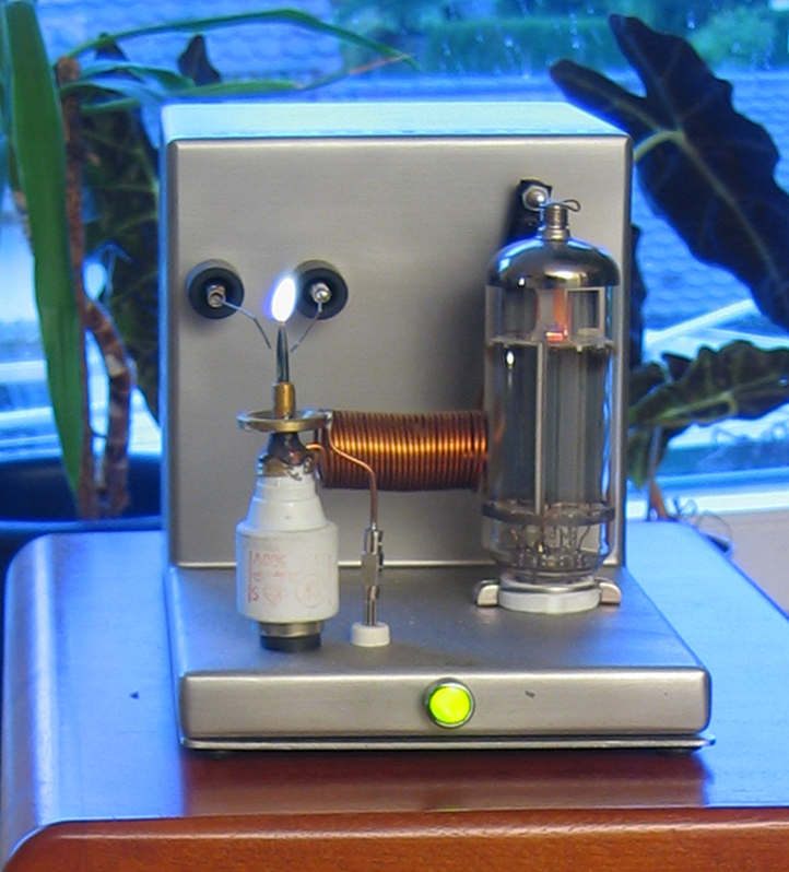 Plasma Speaker (with open front case)